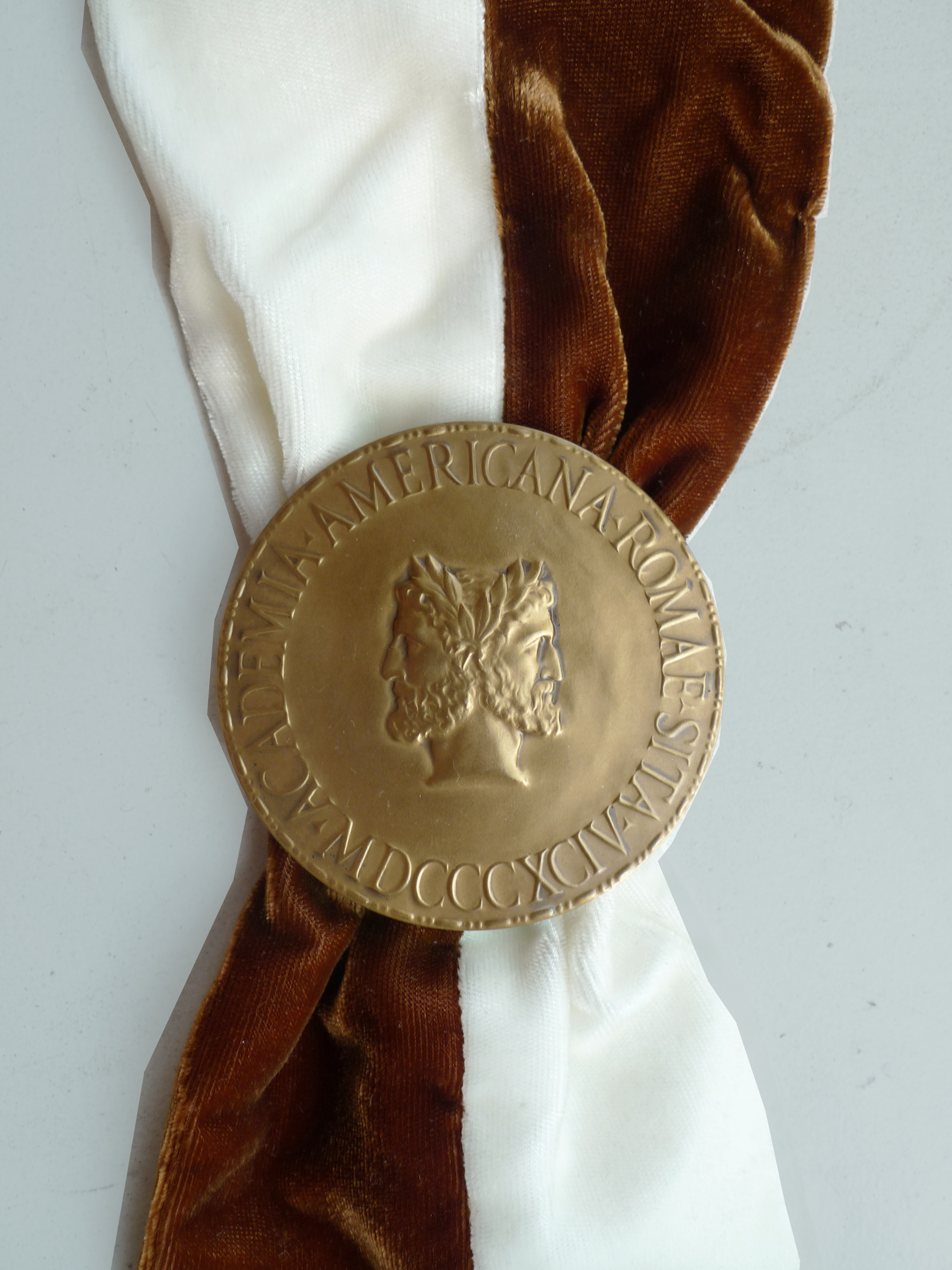 The baldric, a ceremonial adaptation of the medieval knife belt slung over the shoulder, is another part of formal academic regalia. Information about them is hard to find, even from institutions that grant them. You will see them on faculty members at formal graduation or matriculation ceremonies. Baldrics are approximately 3-foot-long and 4 inches wide with a large fastener for the shoulder. Baldrics pin to the right shoulder and drape forward and back. The baldric’s medallion usually bears a heraldic device of the granting institution, which may be more or less abstractly symbolic. The baldric of the American Academy in Rome bears the Janus-head medallion in bronze. This secures the velvet sash in the academic colors for the fields pursued at the Academy, brown (fine arts) and white (humanities, arts and letters). Three thin horizontal fur strips articulate this baldric at either end and about ten inches up from the back. Only recipients of a prestigious Rome Prize Fellowship are permitted to wear this baldric.